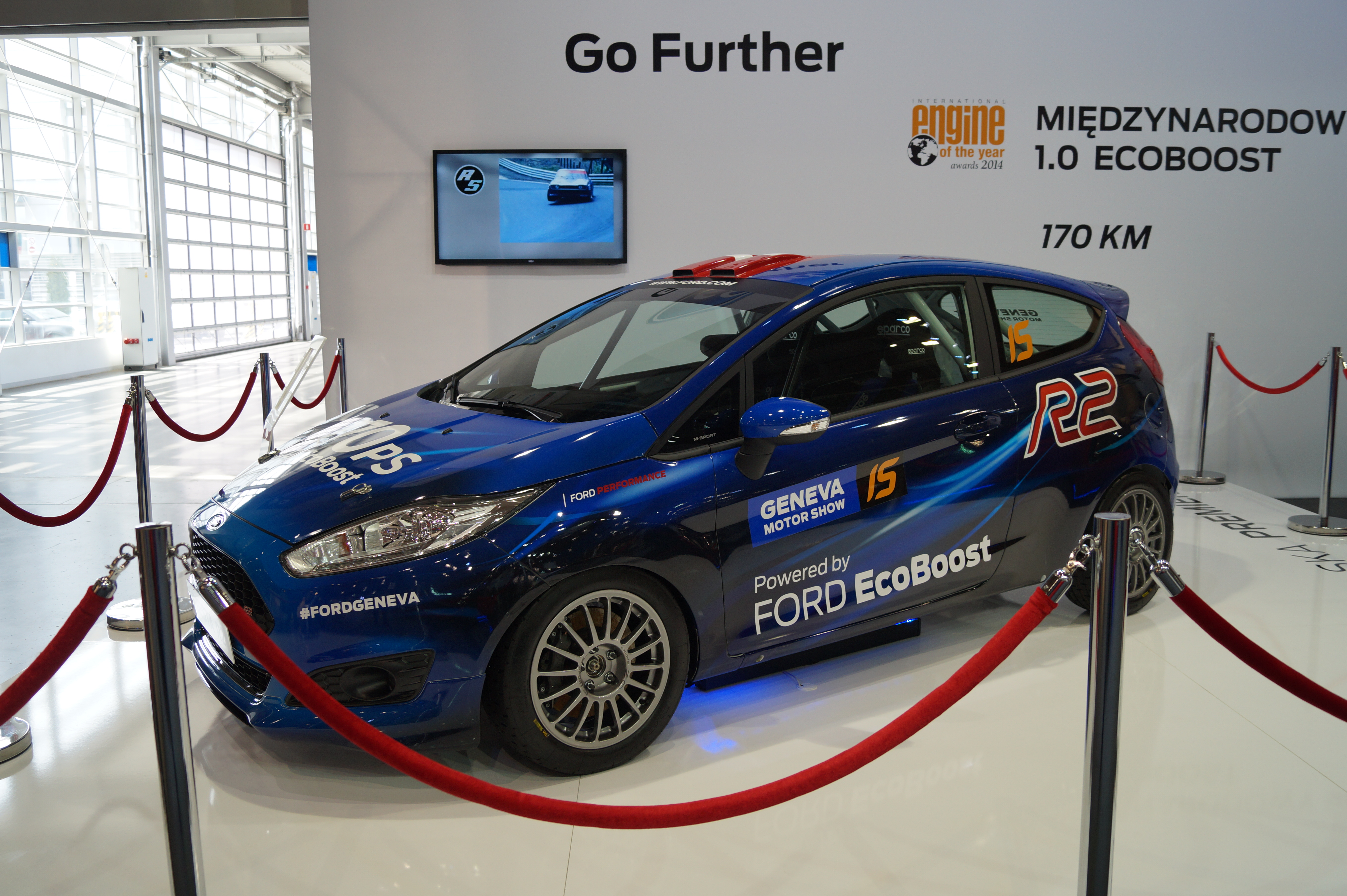 The making of this document was supported by Wikimedia Polska Association, within Wikigrant no. WG 2015-19. Ford Fiesta R2 na Motor Show Poznań 2015